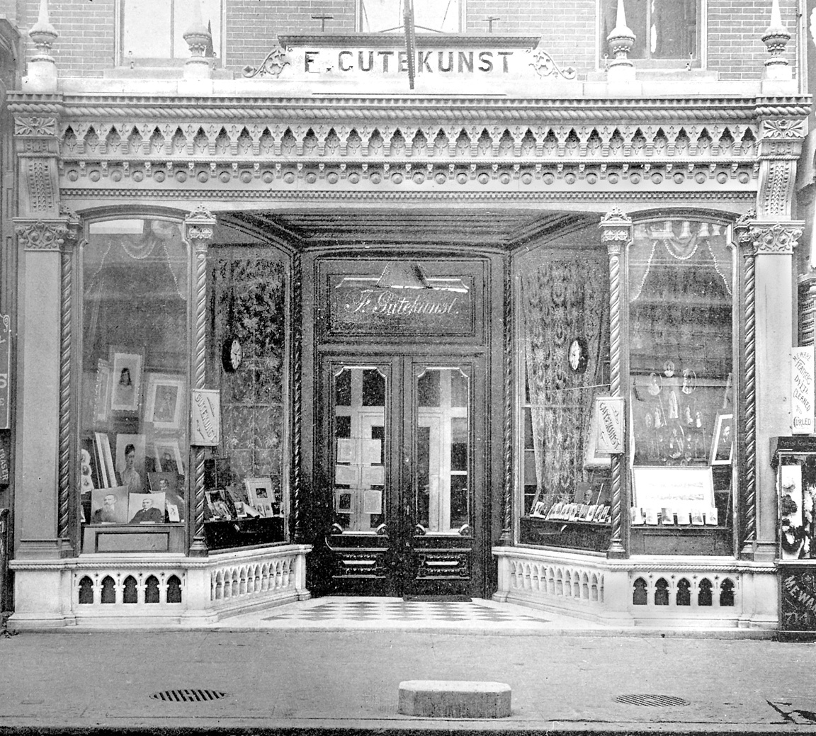 exterior, 712 Arch St. Philadelphia PA